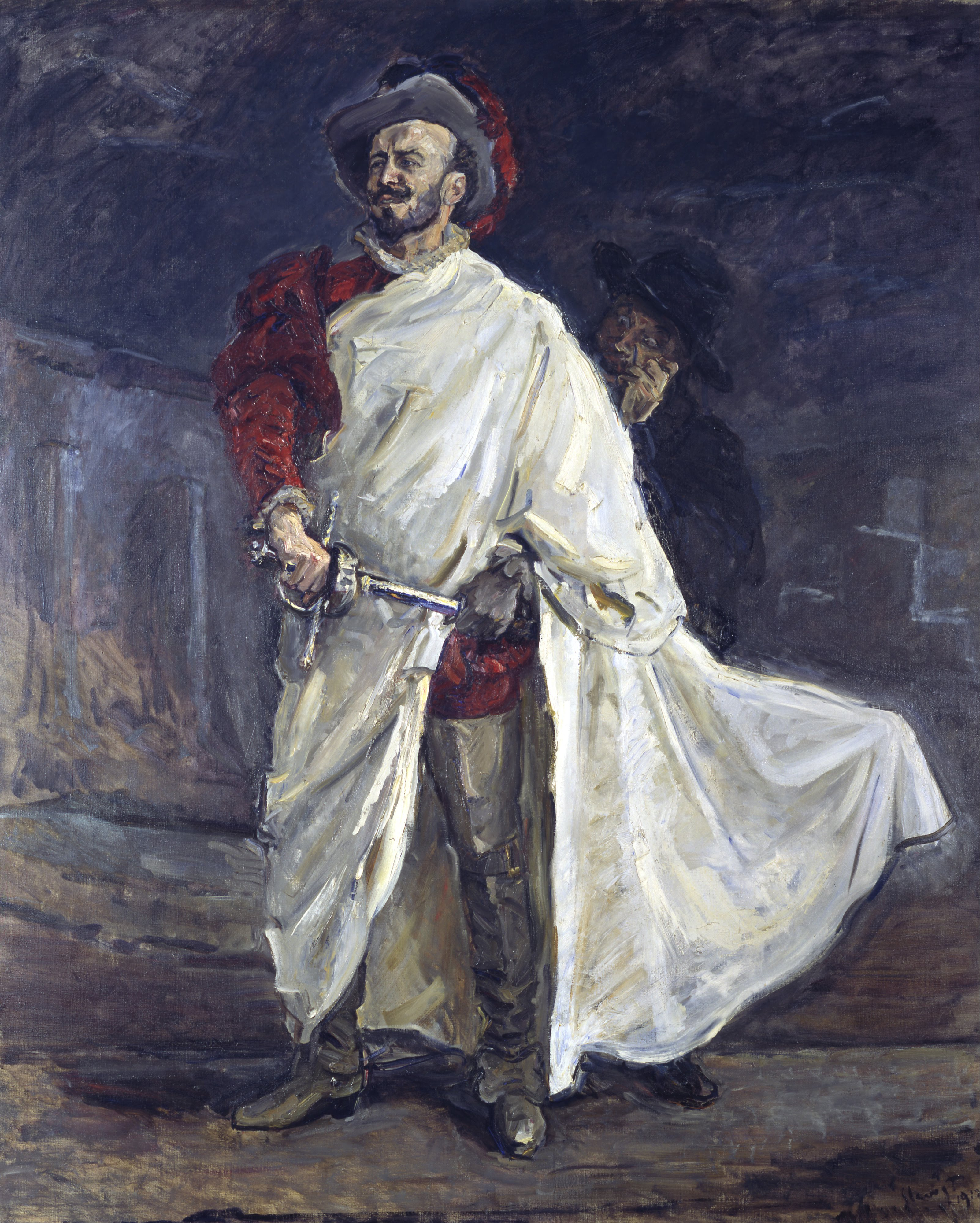 Don Giovannis invitation to the statue of the Commendatore [1]